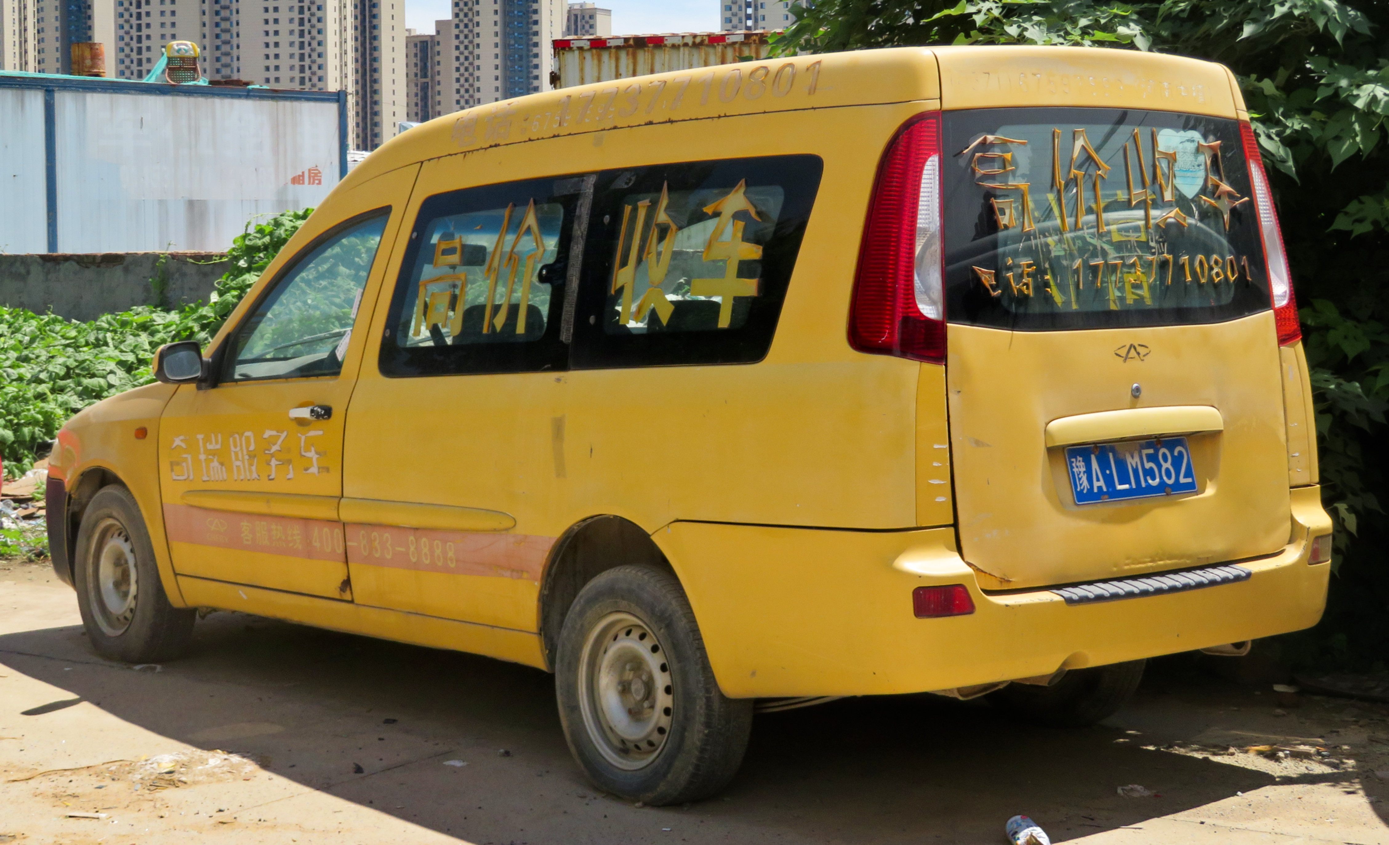 A 2007 Chery Karry van photographed in Zhengzhou, Henan province, China